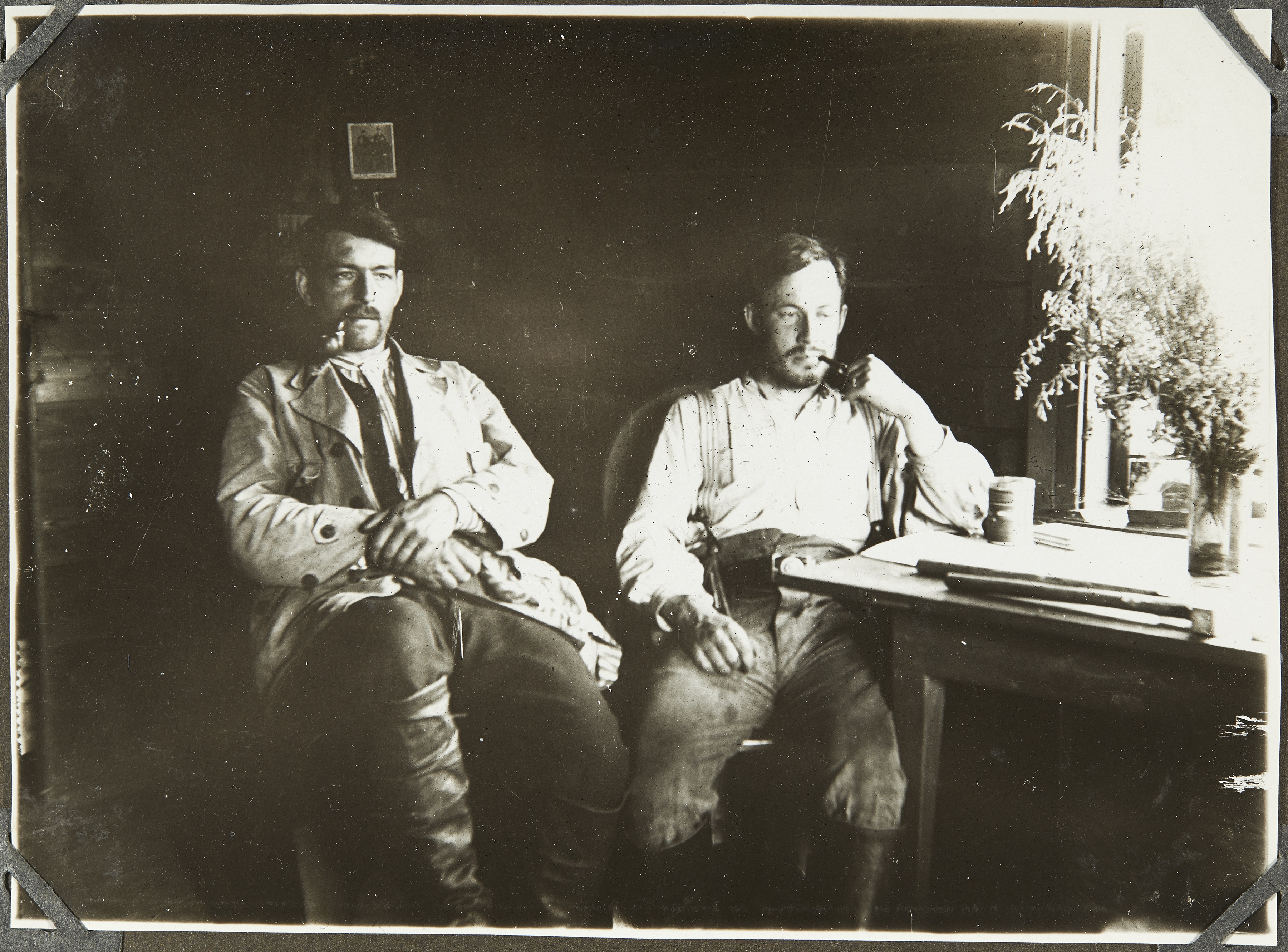 Photograph of the Finnish geologists Aarne Laitakari (1890–1975) and Einar Nordenswan at Kultala, Ivalojoki, Inari.